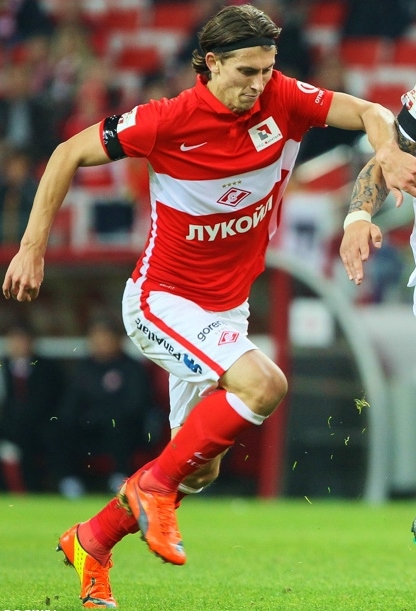 Ilya Kutepov